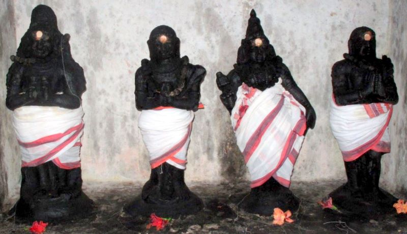 Nalvar, Thirukkarugavur